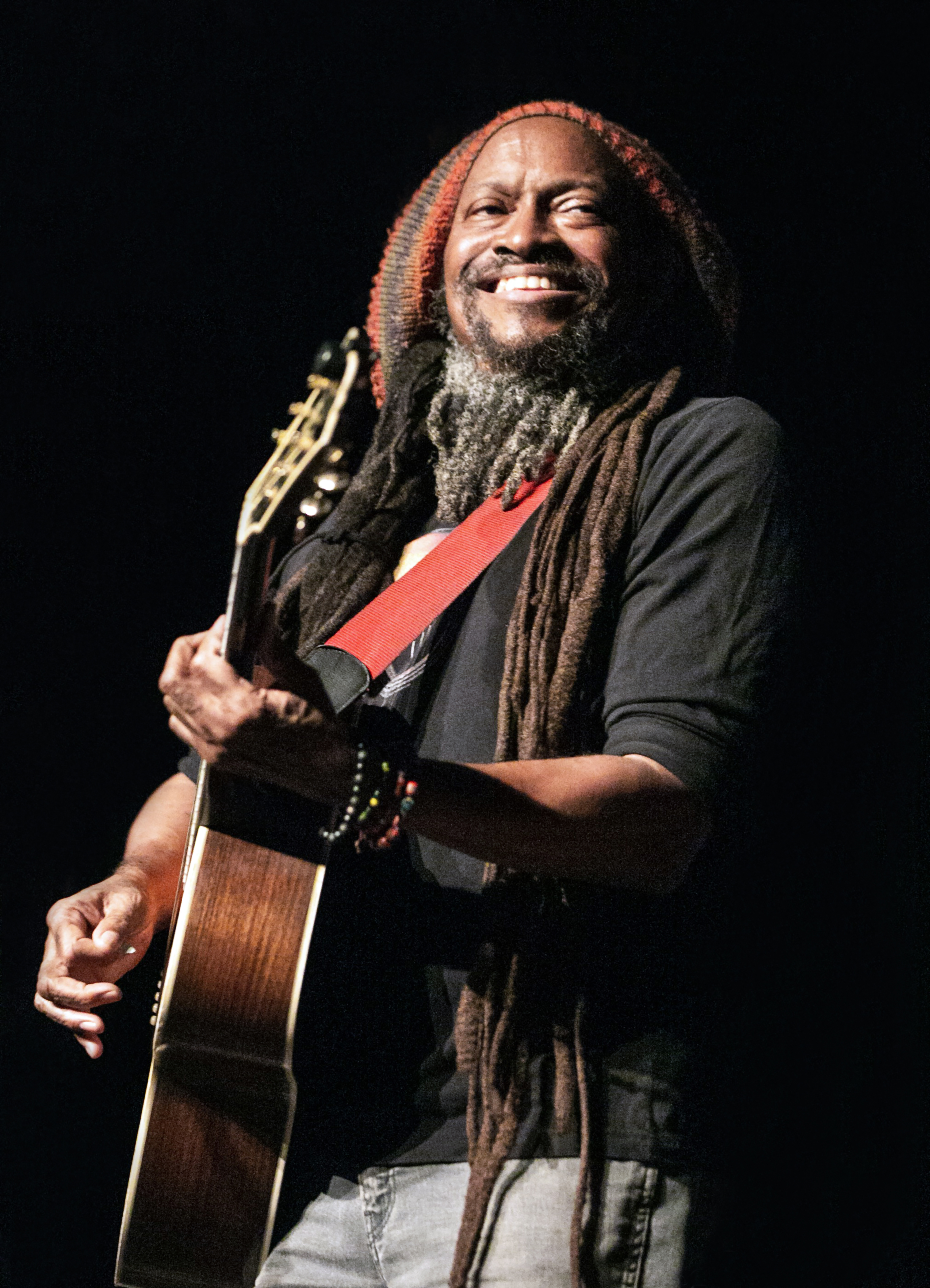 Walt Richardson, Elks Theater, Prescott, AZ